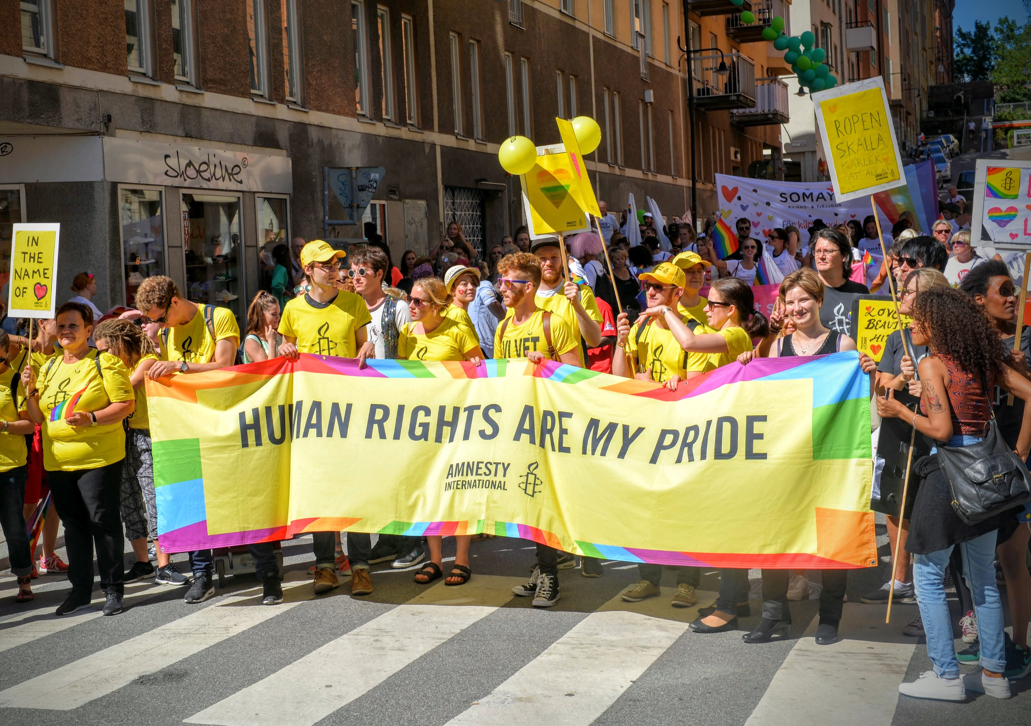 Stockholm Pride 2015 Parade.